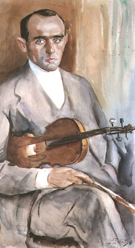 Portret skrzypka Pawła Kochańskiego by Julian Fałat (1911)